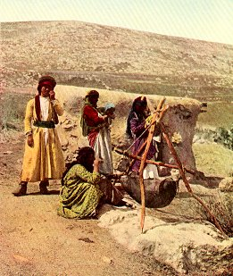 traditional butter making in the Palestine/traditionelle Butterfabrikation in Palästina